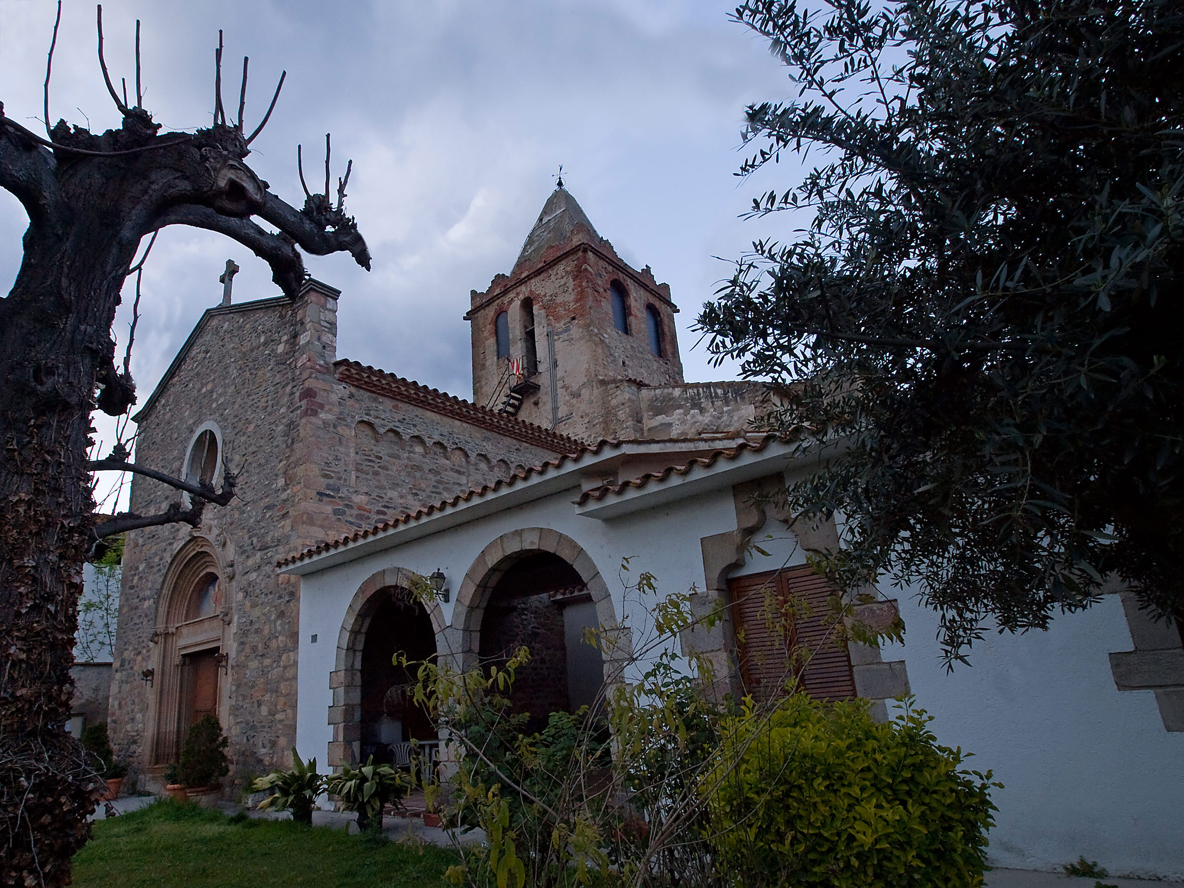 Sante Esteve church